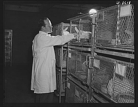 Blood transfusion bottles. Rabbits too, aid the war effort. William Edwin Morris, histologist for Baxter Laboratories Inc., Glenview, Illinois, conducts research on blood plasma through experimentation on rabbits. The company prepares transfusion bottles for blood letting.